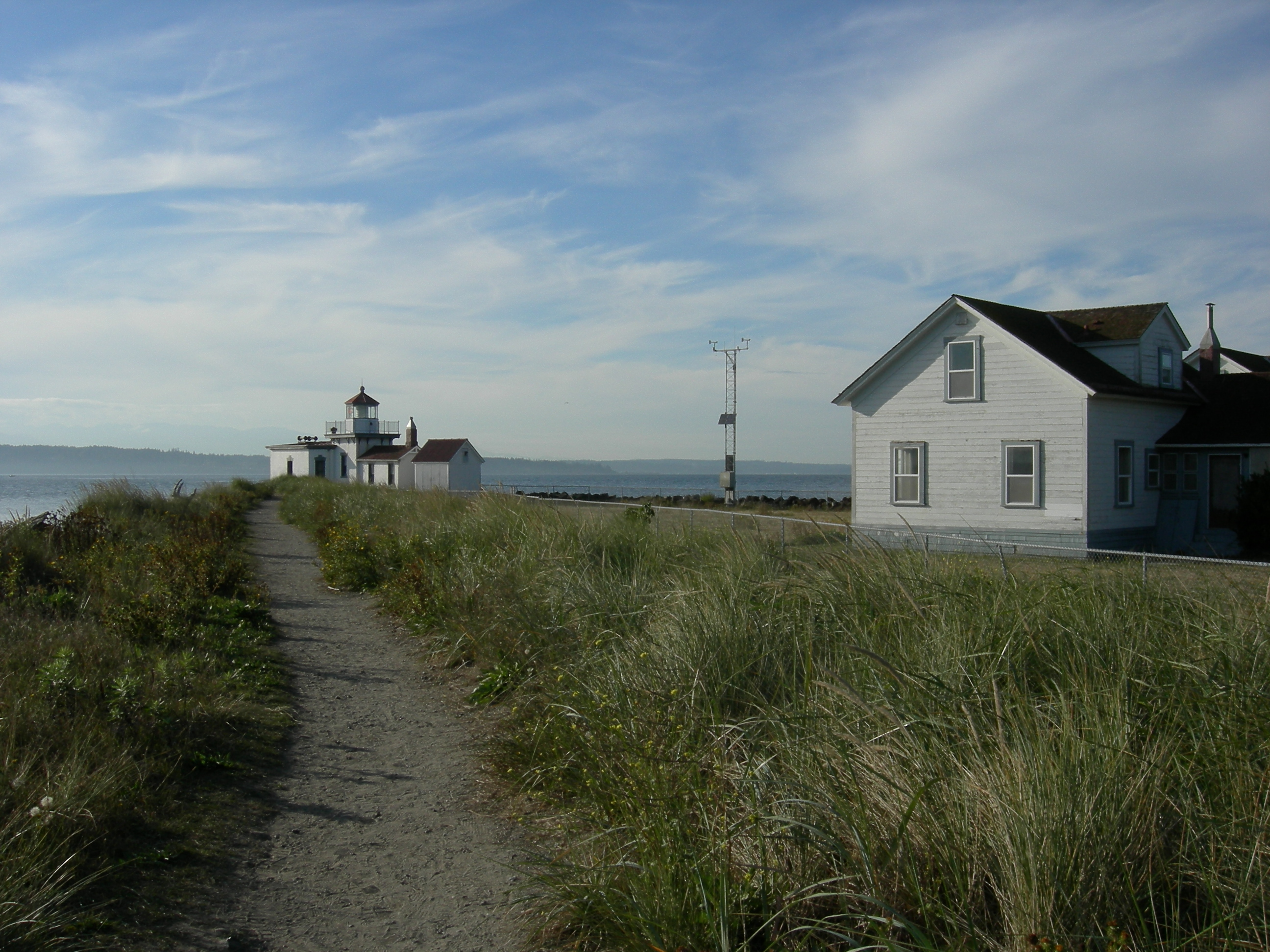 West Point Light Station, historically part of Fort Lawton (now Discovery Park), Seattle, Washington, USA. The lighthouse is listed in the National Register of Historic Places, ID #77001336.